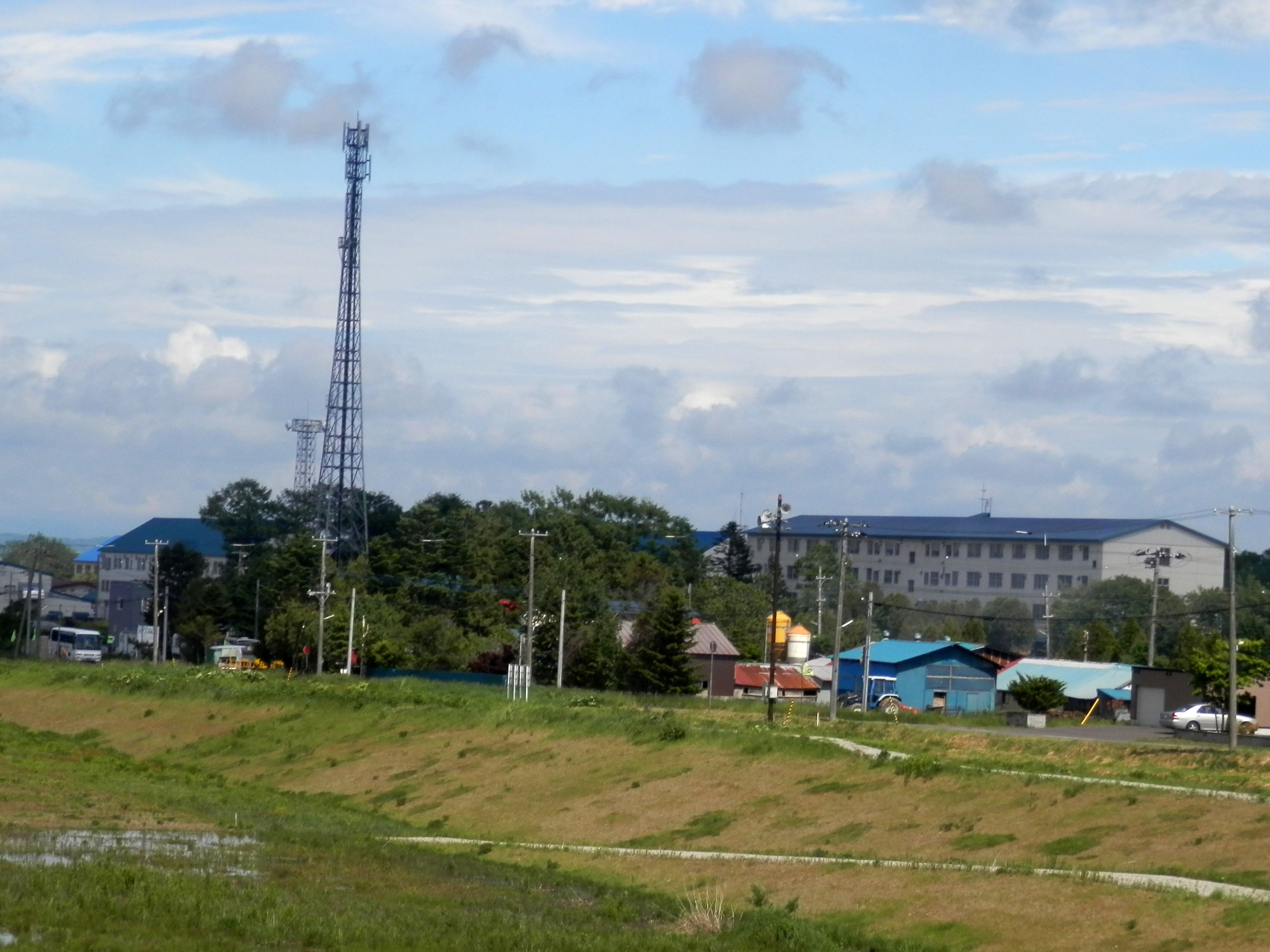 JGSDF Camp Kita-Eniwa in Eniwa, Hokkaido.